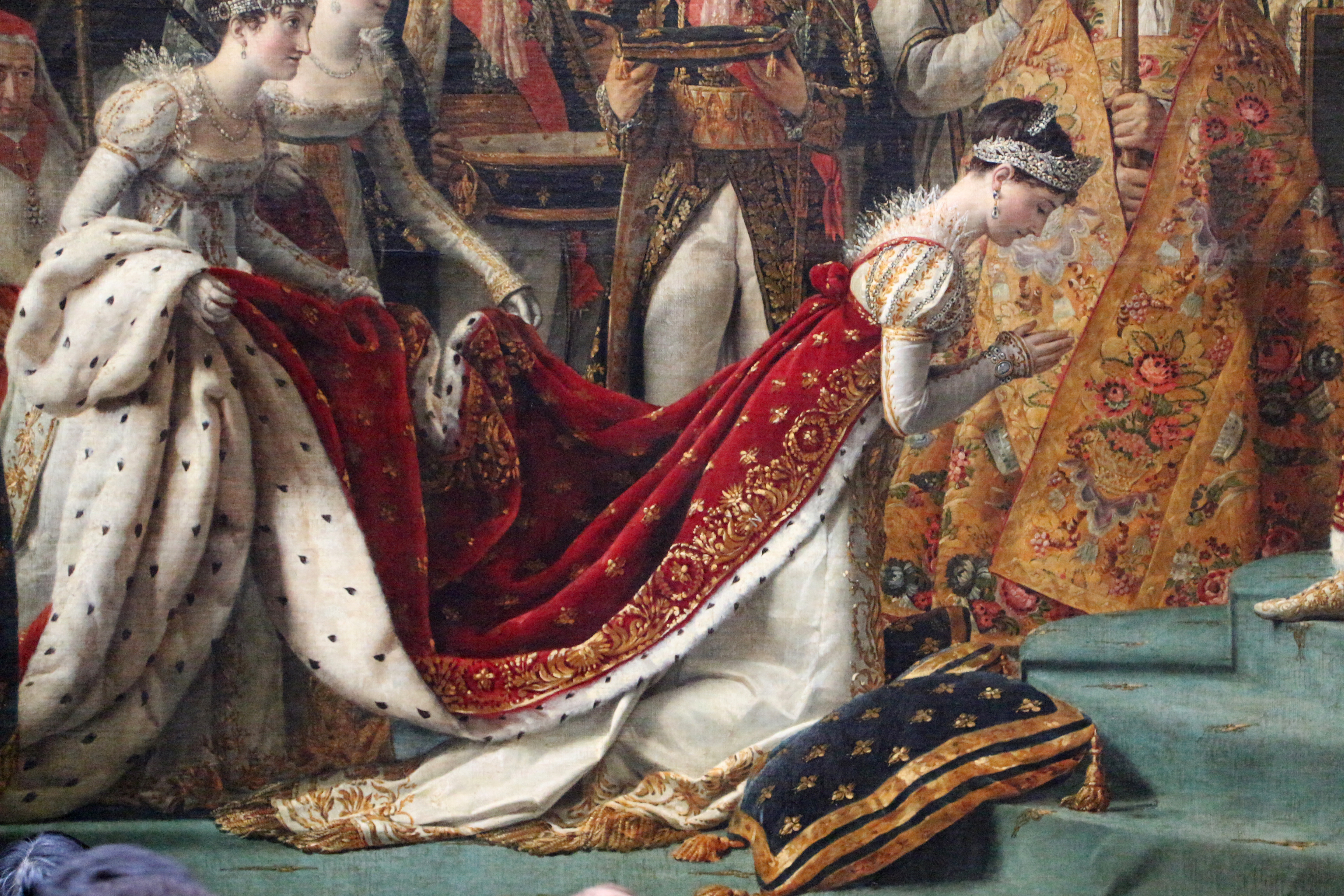 Paintings by Jacques-Louis David in the Louvre